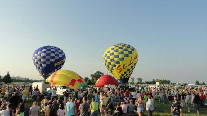 Scenes from the 2011 California Balloon Invitational